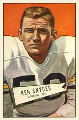 American football player Lum Snyder on a 1952 Bowman Large card.